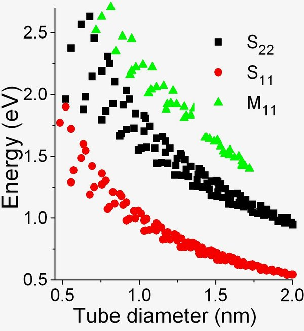 Example of Kataura plot (graph relating band gaps and diameter of carbon nanotube)